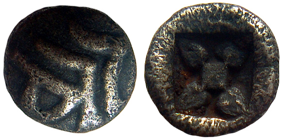 Coin 1 mass, Majapahit Empire, Java. Silver, diameter 11.8-12.2 mm, thickness 2.8-3.1 mm, weight 1.85 g. Years of coinage - 1293-1517. On the obverse, the denomination is “MA”, written in Nāgarī script; on the reverse is a stylized image of a sandalwood flower.